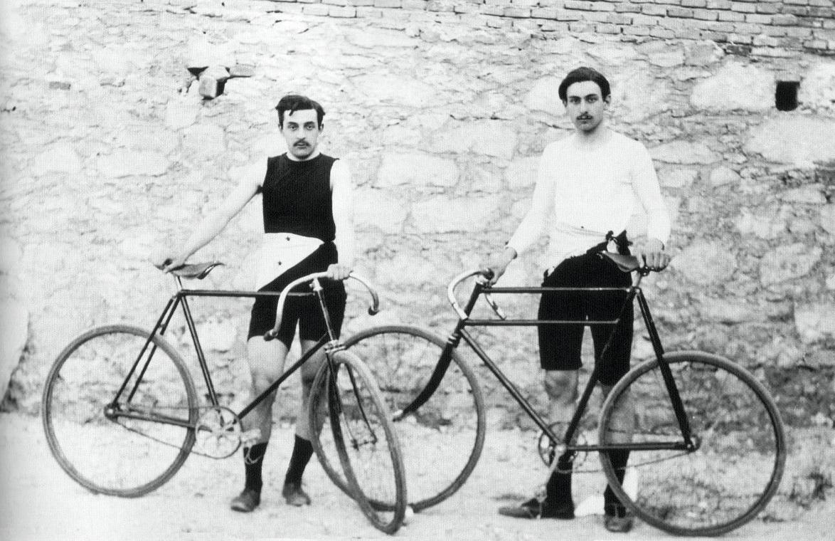 Olympic Games 1896, Athens. From France: the cyclists Léon Flameng (right) and Paul Masson.